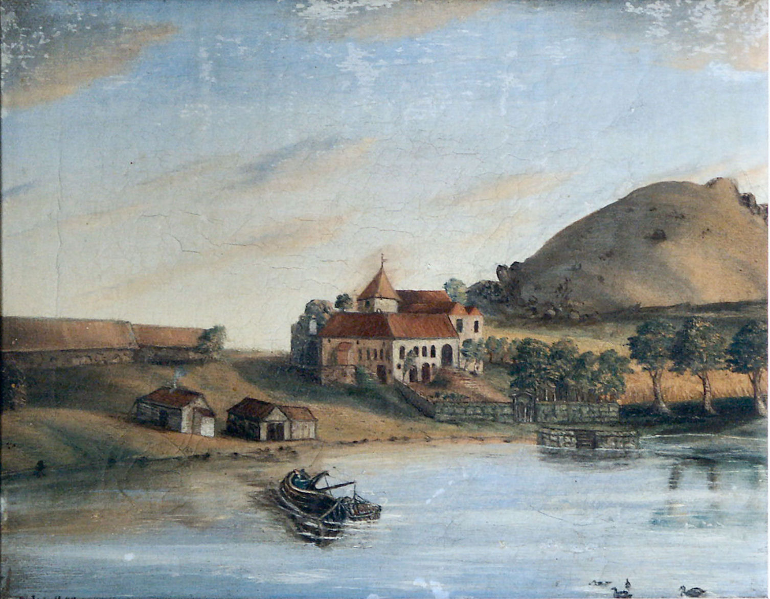 Utstein monastery, Klosterøya, Rennesøy municipality, Rogaland county, Norway